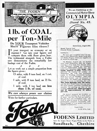 Vintage foden steam lorrry advertisement